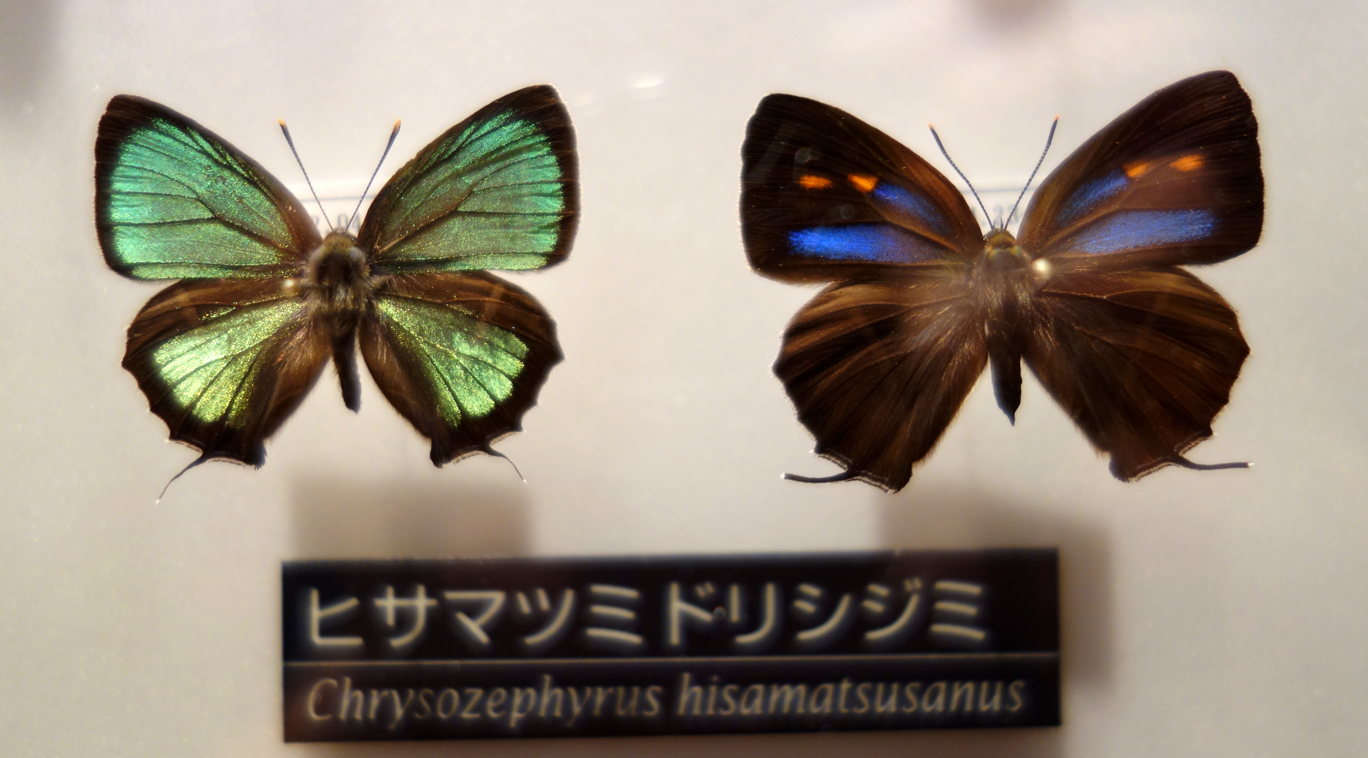 Exhibit in the National Museum of Nature and Science, Tokyo, Japan.